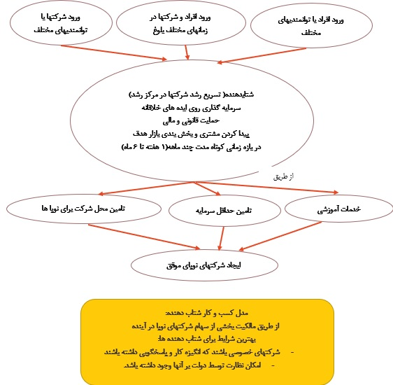 وظایف شتابدنده‌ها به عنوان یکی از بازیگران اصلی اکوسیستم نوآوری